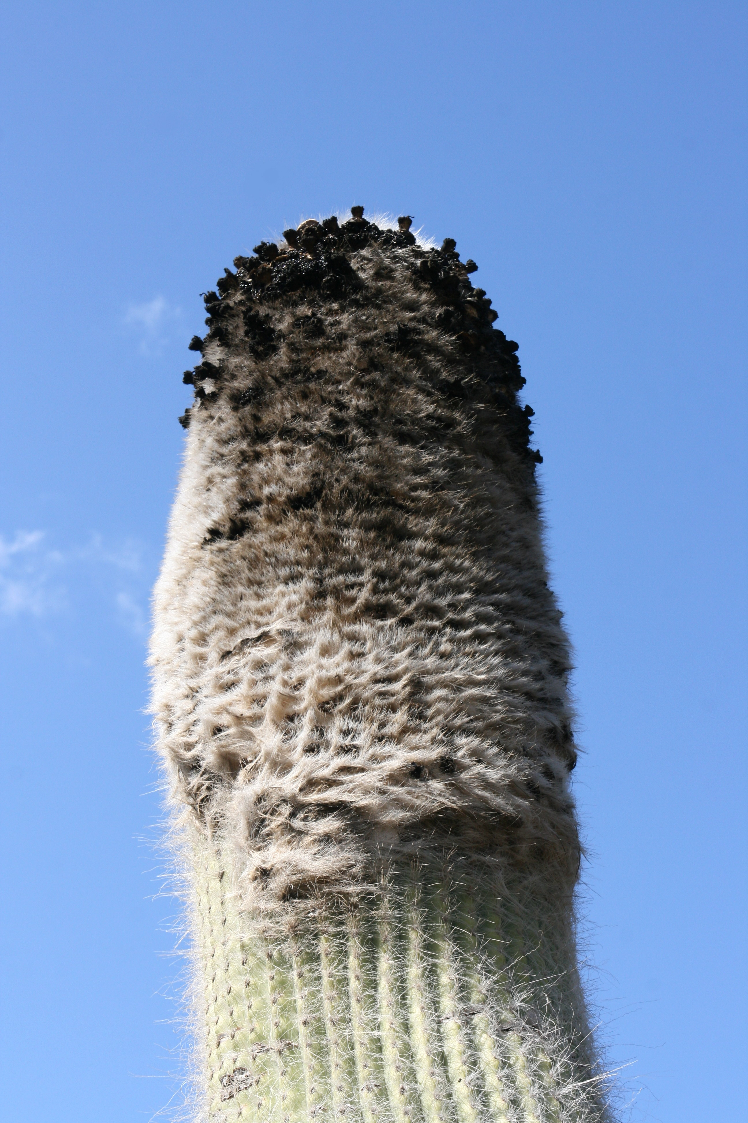 Cephalocereus senilis grown in the Botanical Garden “Jardin de Cactus” in Guatiza, Teguise, Lanzarote, Canary Islands